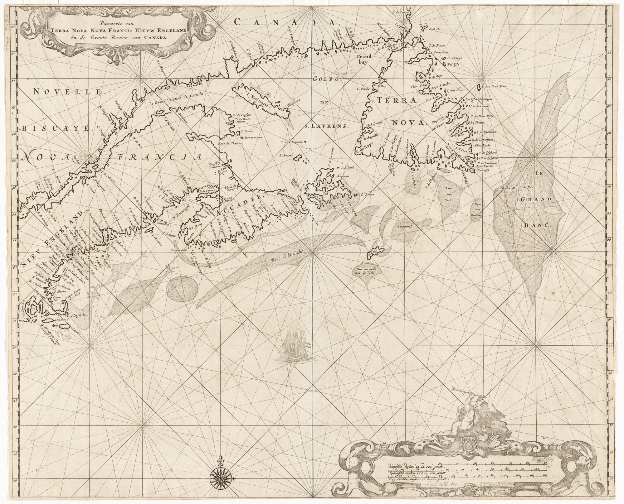 Zoom into this map at . Author: Roggeveen, Arent Publisher: Roggeveen Date: [1675] Location: New France Scale: Scale [ca. 1:4,800,000] Call Number: G3320 1675.R6